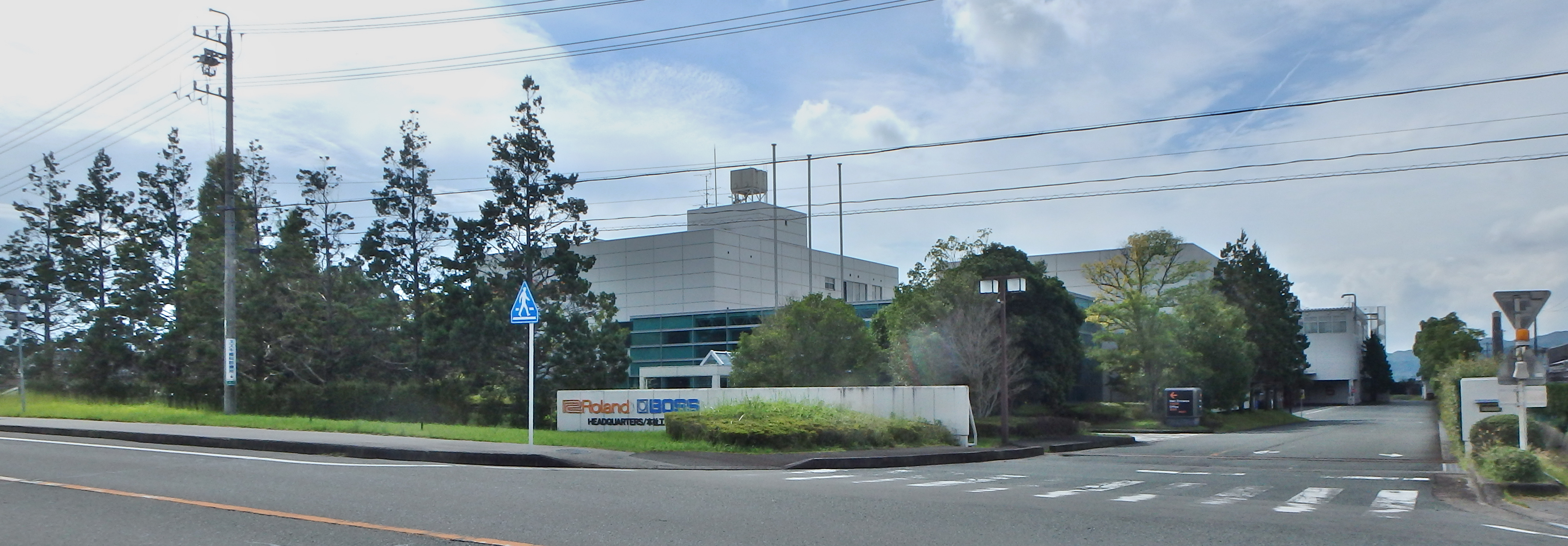 Headquarters of Roland Corporation,Shizuoka prefecture,Japan